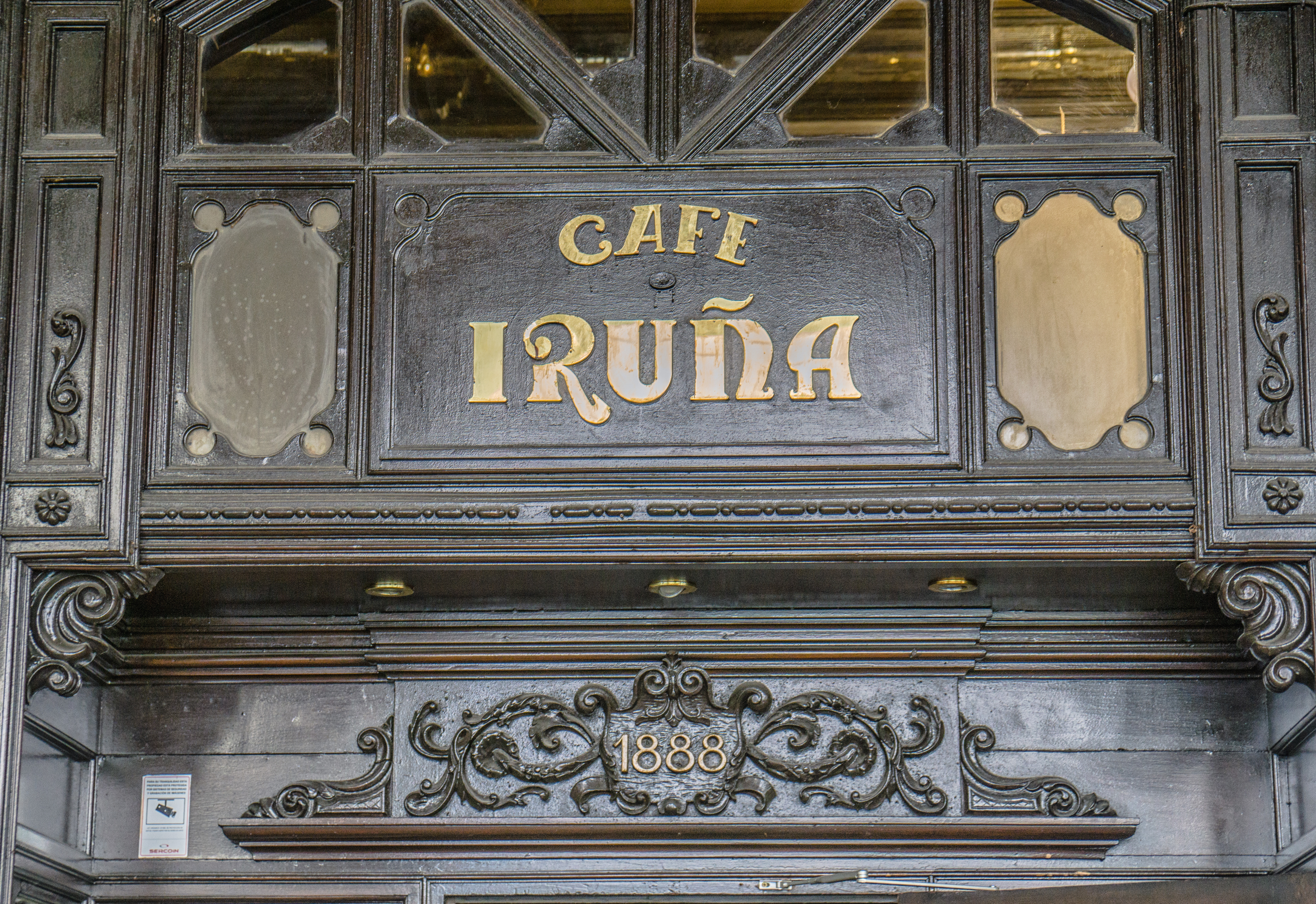 Cafe Iruna - where hemingway drank